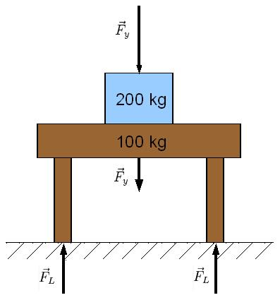 a table in equilibrium with gravity forces